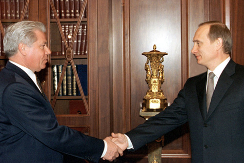 THE KREMLIN, MOSCOW. Acting President and Vyacheslav Lebedev, Head of the Supreme Court.